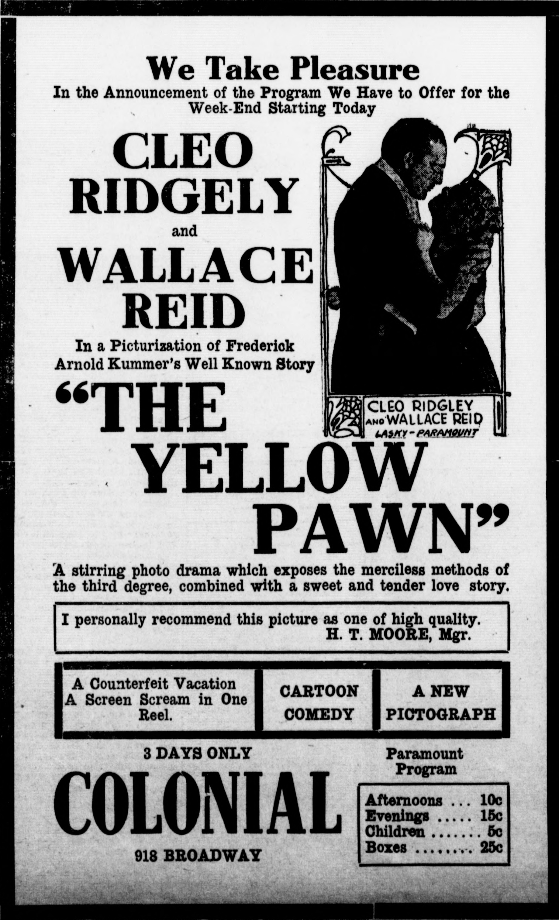 The Yellow Pawn is a lost 1916 American drama silent film directed by George Melford and written by Frederic Arnold Kummer and Margaret Turnbull. Newspaper advert for the film.